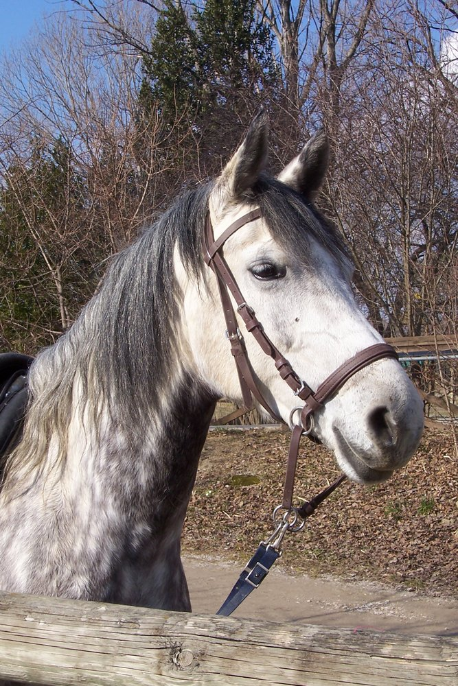 A modern bridle without bit